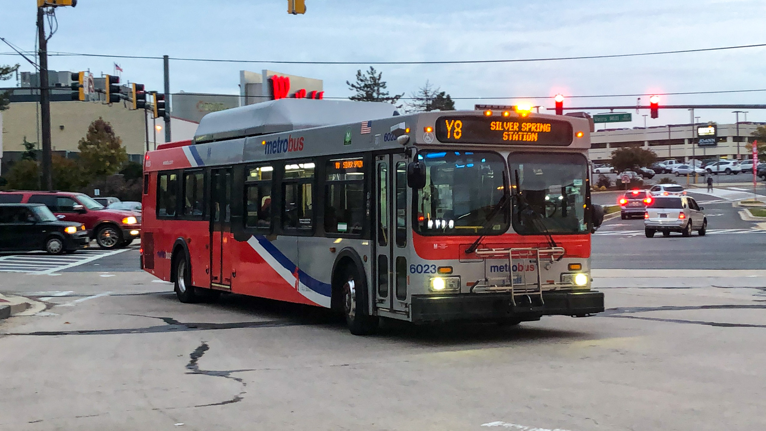 WMATA 2005 New Flyer DE40LF 6023 on Route Y8 at Wheaton station